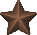 Bronze service star ribbon device used on military ribbons.